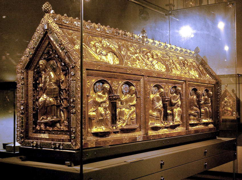 Reliquary chest of Saint Servatius in the Treasury of the Basilica of Saint Servatius, Maastricht, Netherlands. So-called 'Christ panel' and 'Saint Peter side' of the chest. From left to right on the Saint Peter panel: St Peter, St Andrew, St Matthew, St Thomas, St Judas (Thaddeus) and St Simeon. Mosan (Maastricht?), gilded copper over wood.